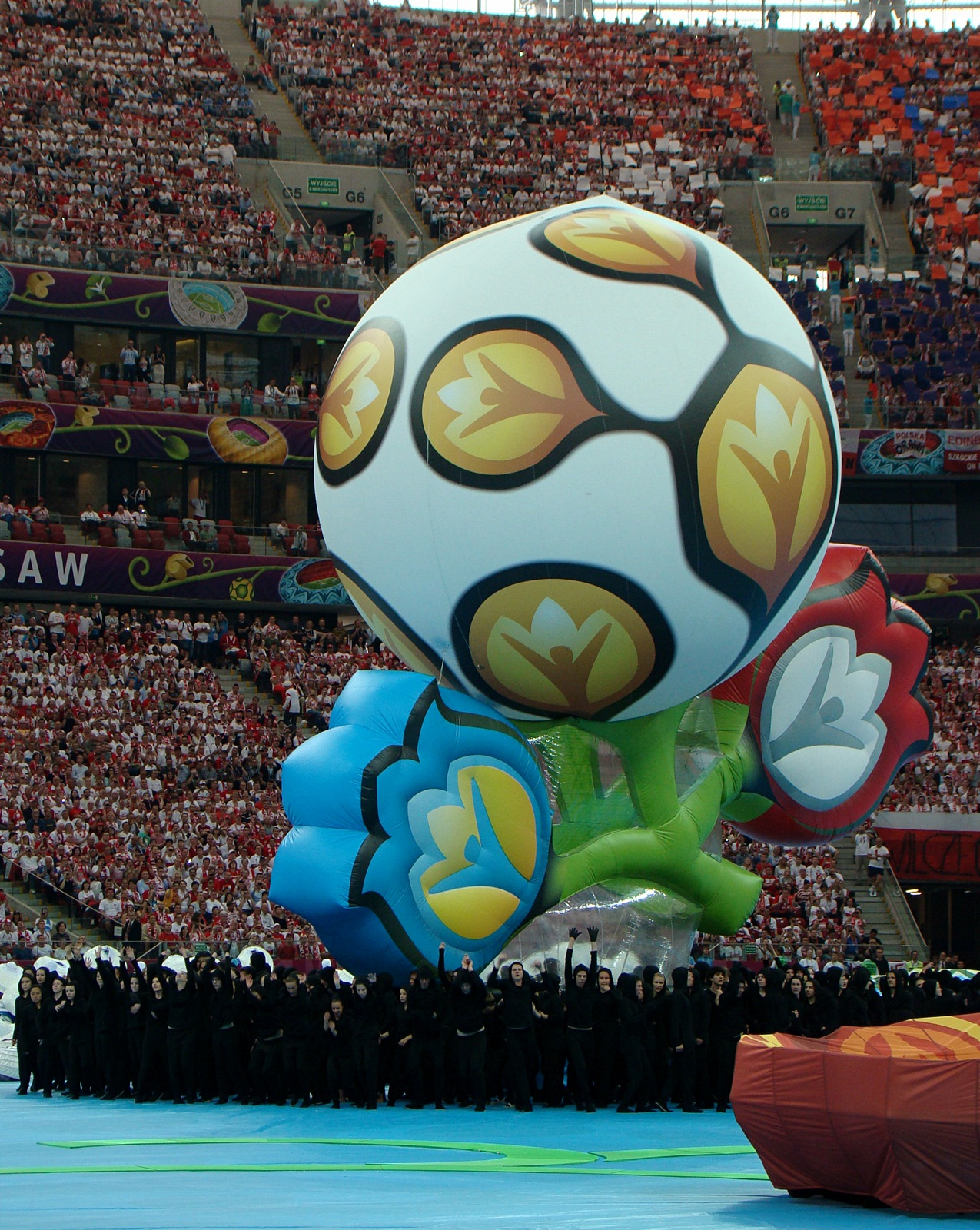 Opening ceremony of UEFA Euro 2012